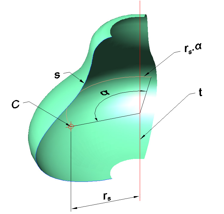 1st Pappus-Guldin theorem. Area of a surface of rotation